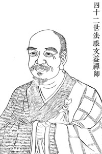 Portrait of chan master Fayan Wenyi